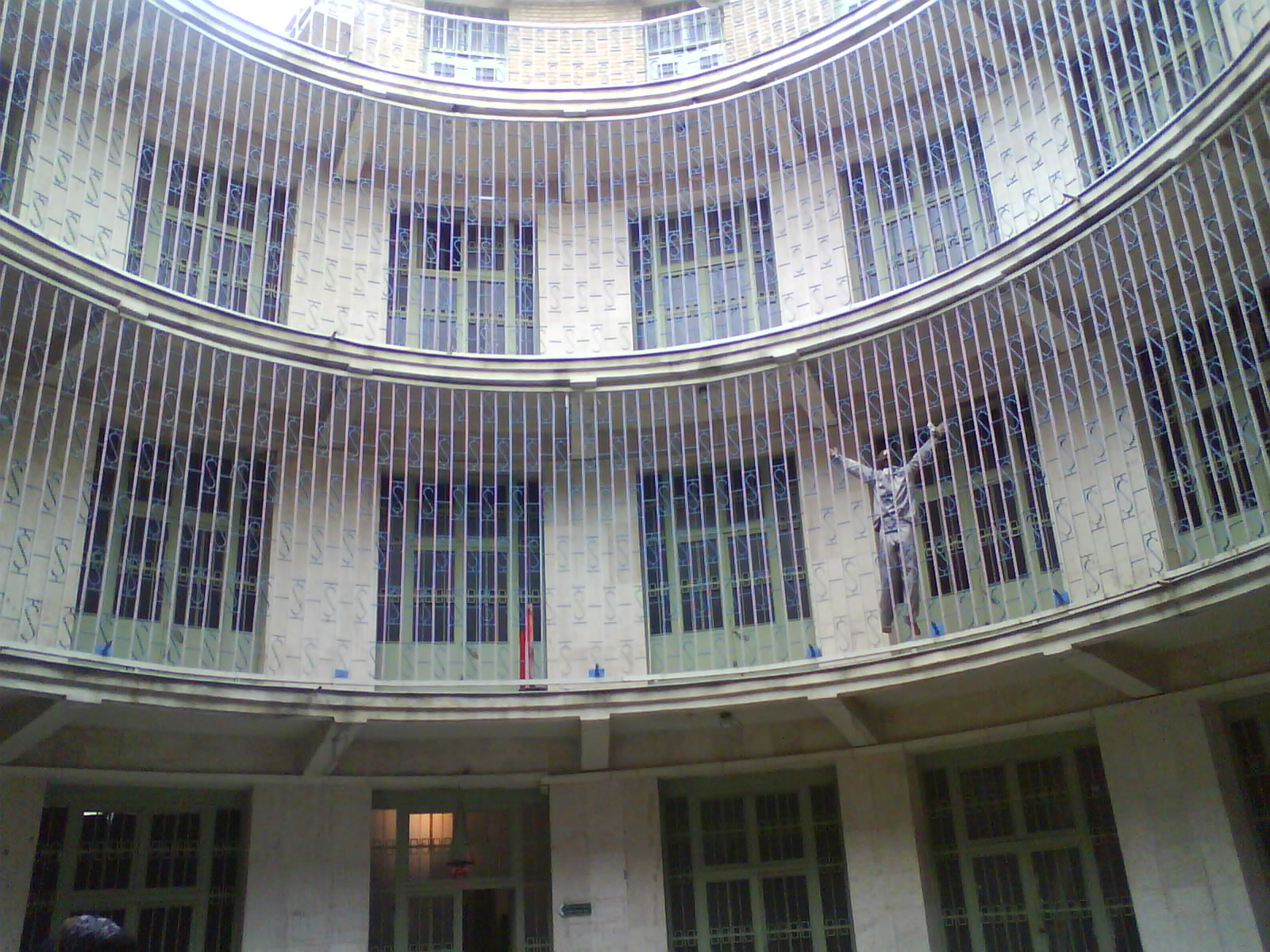 Ebrat (warning) museum, former Towhid Prison